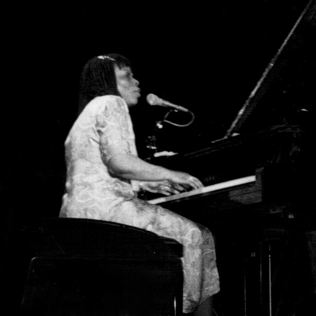 American jazz pianist, organist, vocalist, composer, and musical arranger Amina Claudine Myers in Paris, France